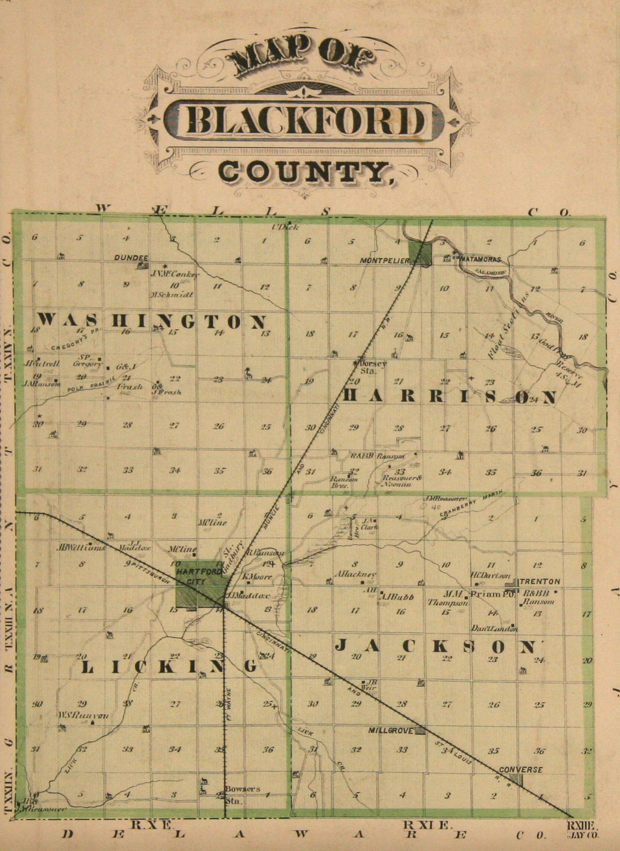 Map of Blackford County, Indiana, United States